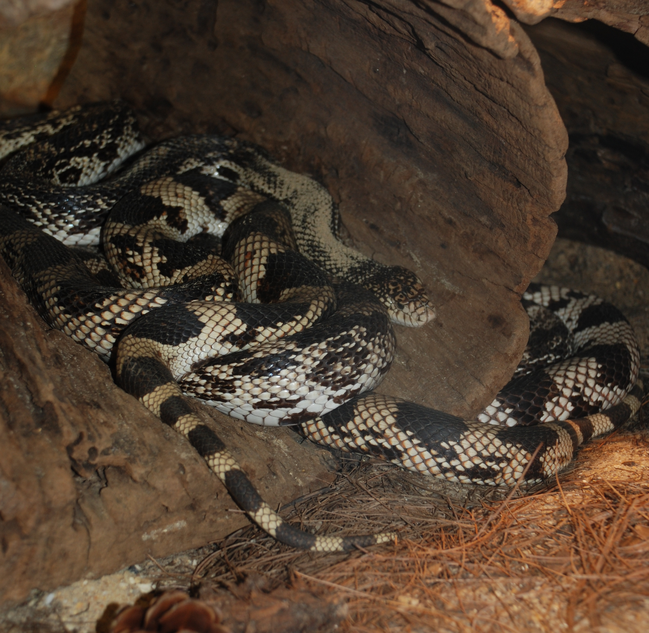 Reptiles in Smithsonian National Zoological Park: Pituophis melanoleucus Northern pine snake